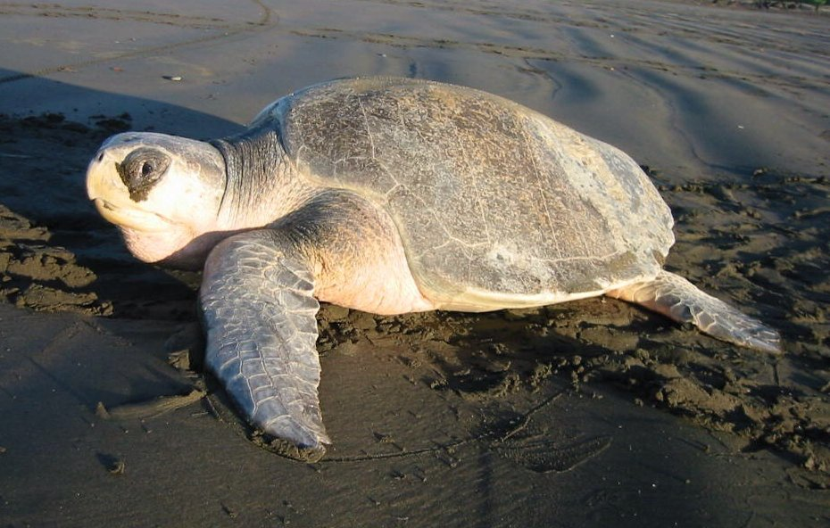 Crop of file in filename